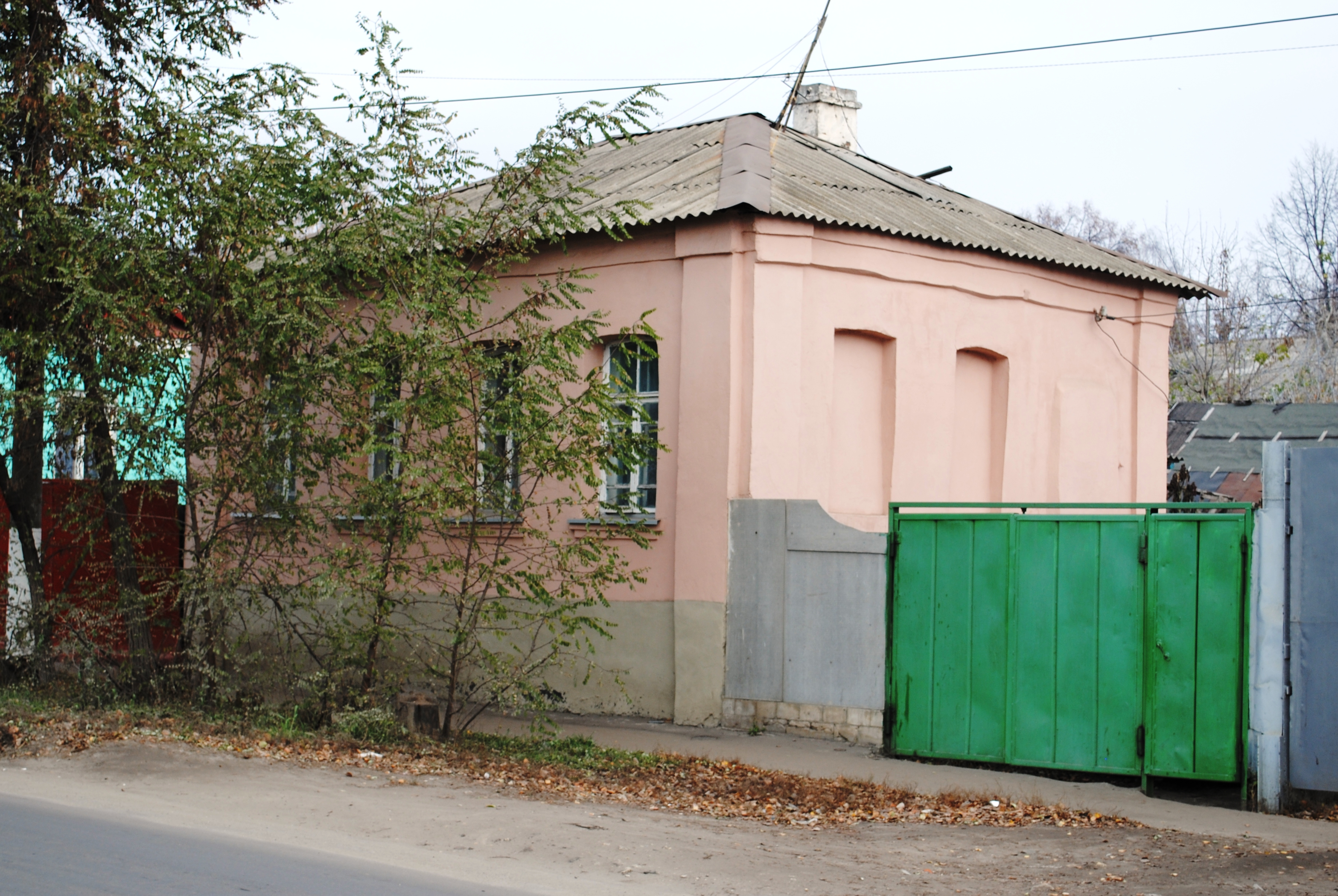 Evgraf Byhanov